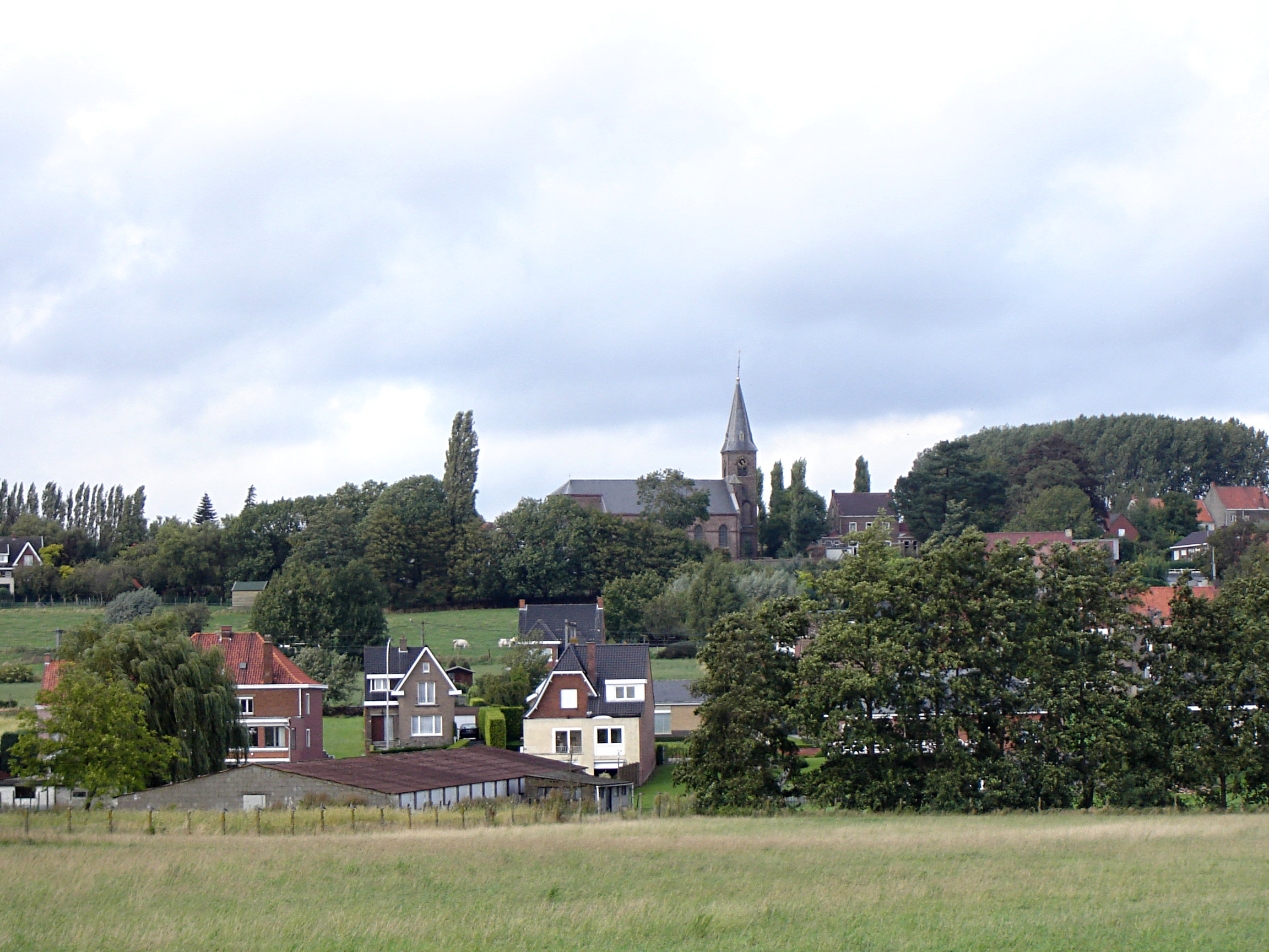 View on the village of Gijzelbrechtegem. Gijzelbrechtegem, Anzegem, West Flanders, Belgium